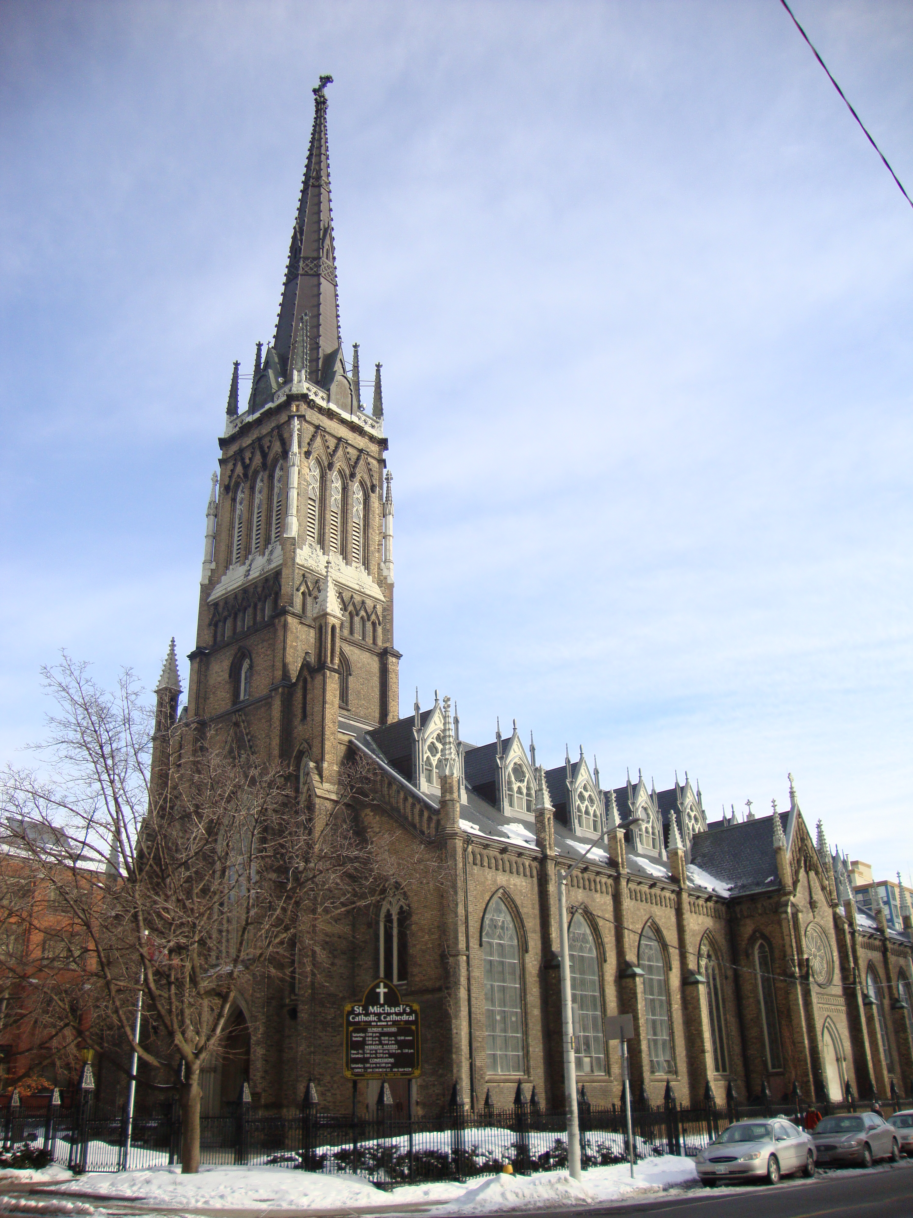 Picture emphasizing the tower and showing the facade.